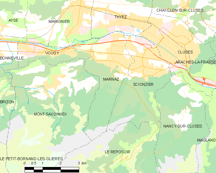 Map of French municipality Marnaz